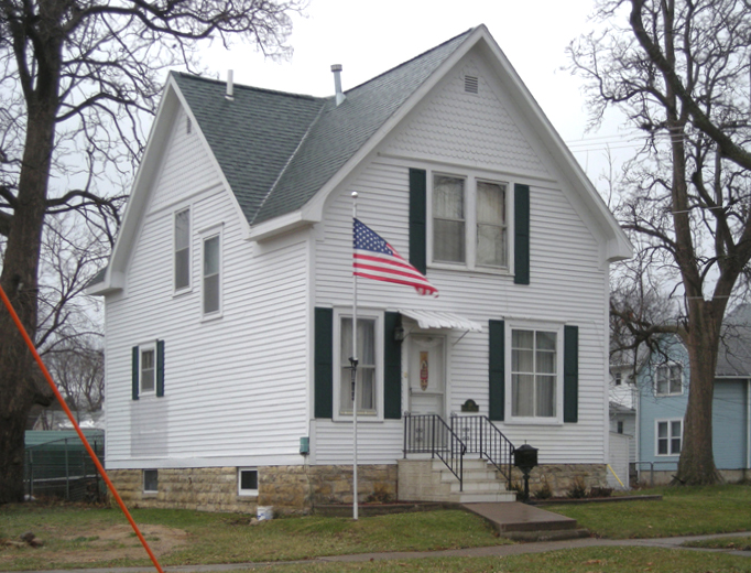 Grant Wood's boyhood home, Cedar Rapids Bill Whittaker (talk) 17:50, 6 May 2009 (UTC)